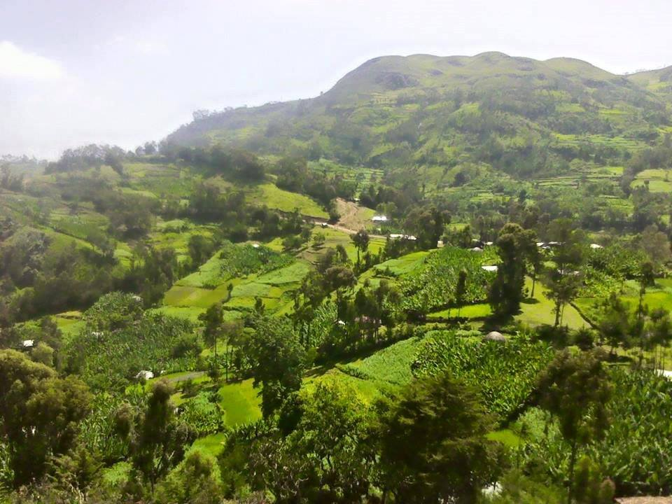 Rural Wolayita